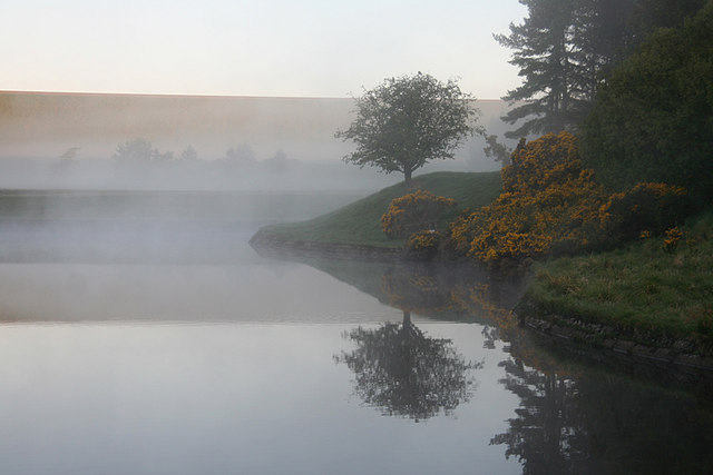 The River Derwent The Derwent in early morning mist just below the Dam.